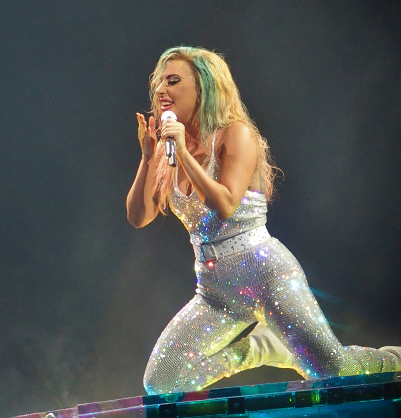 Lady Gaga performing "Million Reasons" on the Joanne World Tour